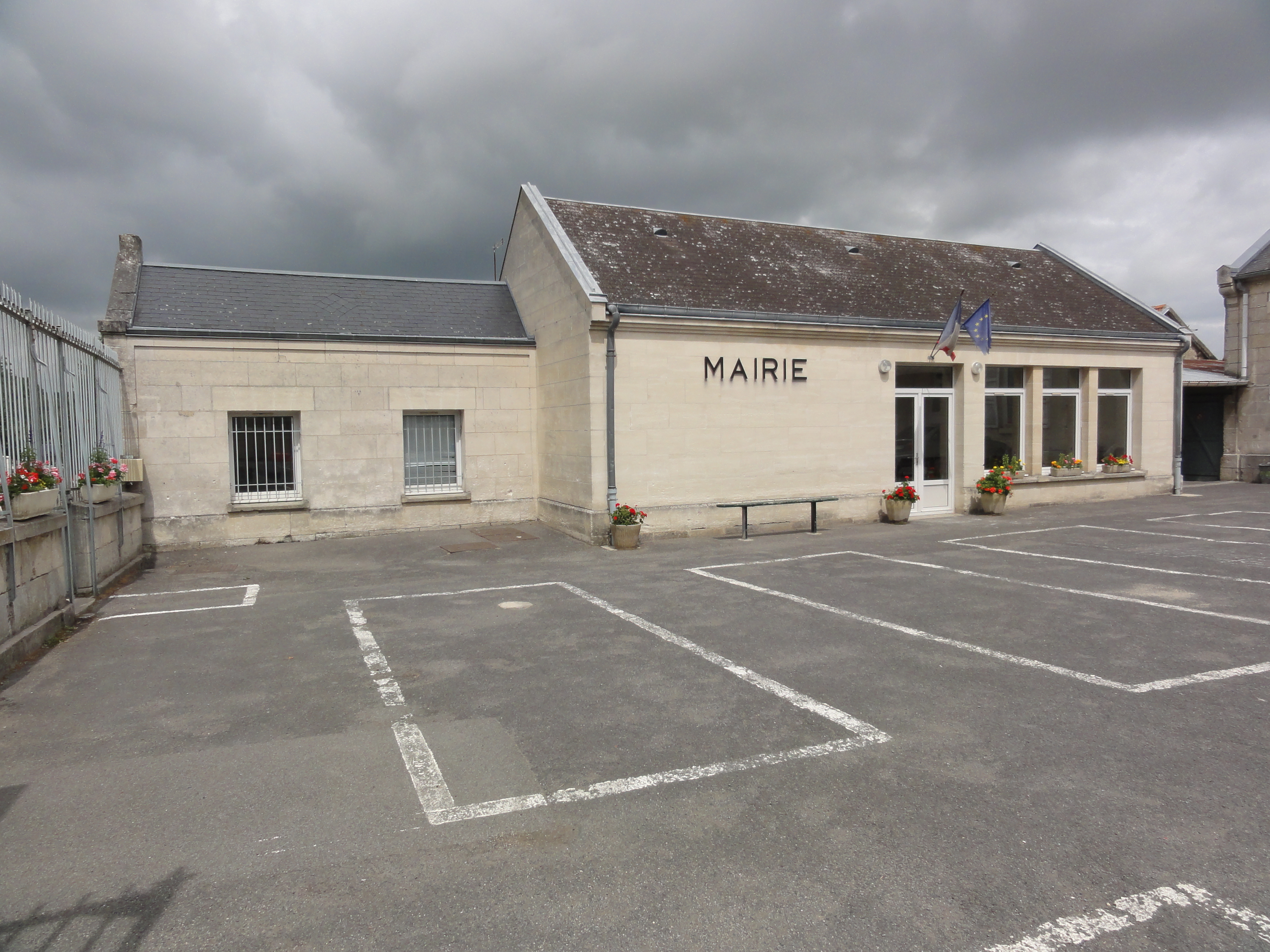 Ciry-Salsogne (Aisne) mairie